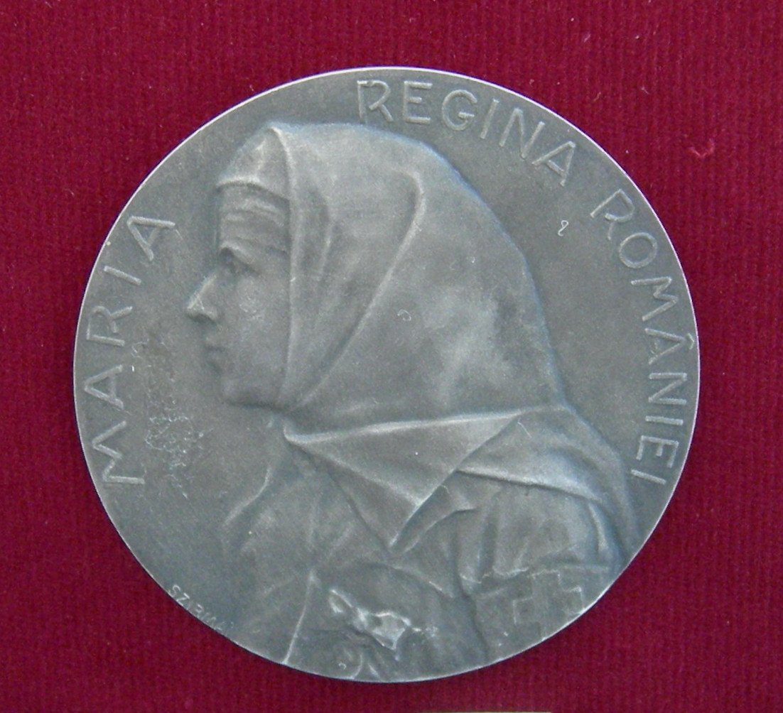 Medal representing Marie of Romania (née Marie of Edinburgh). Inscription, in Romanian, reads "MARIA REGINA ROMÂNIEI". Date unknown (to us, at least), but from her age it should be early 20th century. Wearing a medical nurse attire, which points to her activity during Romania's involvement in WWI (1916-18).